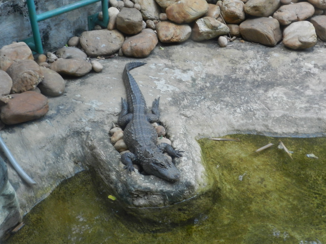 Chinese alligator in Hong Kong Zoological and Botanical Gardens